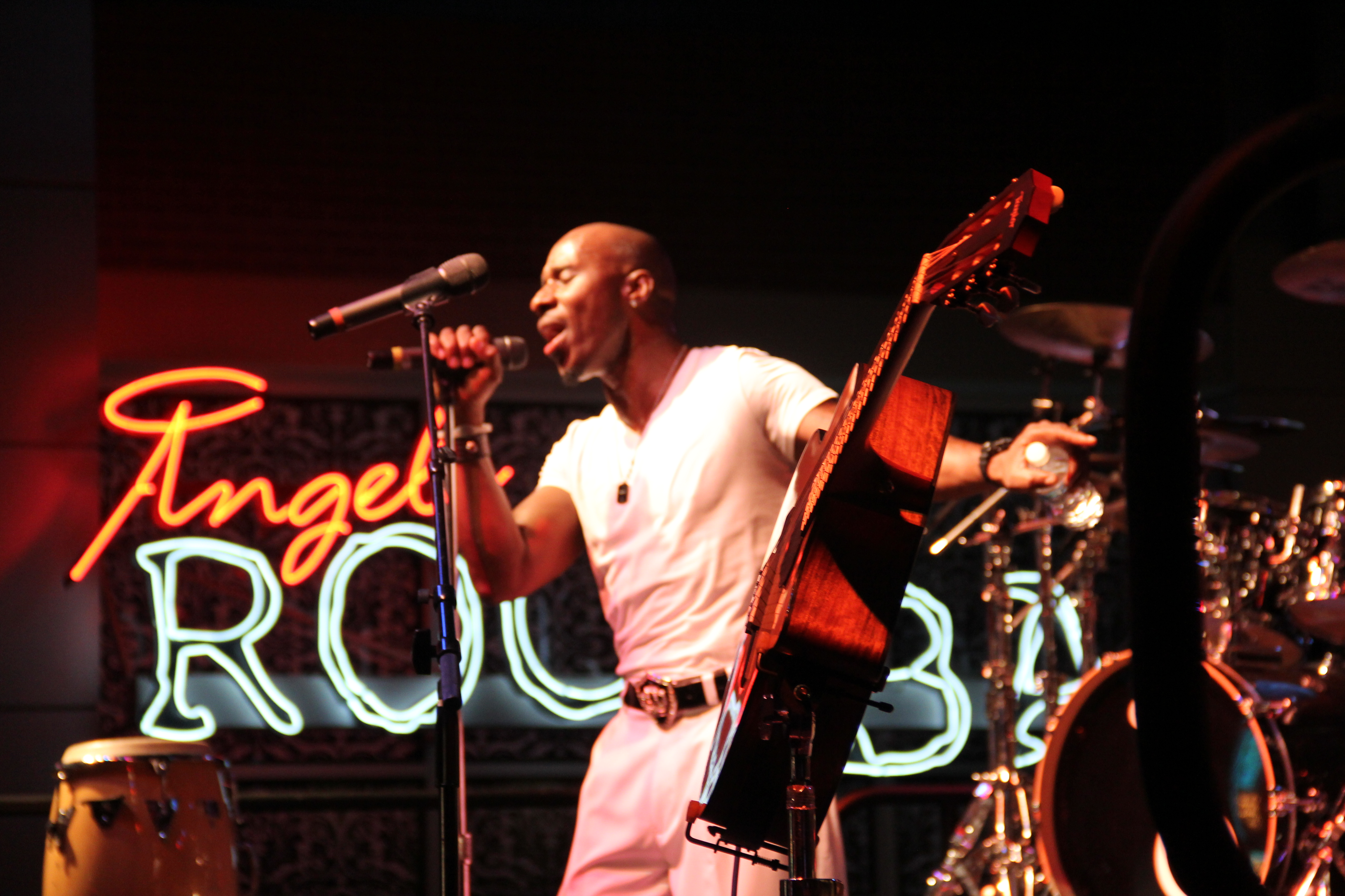 Amir Khalil of "Tony! Toni! Toné!" performing in Louisville, Kentucky.jpg